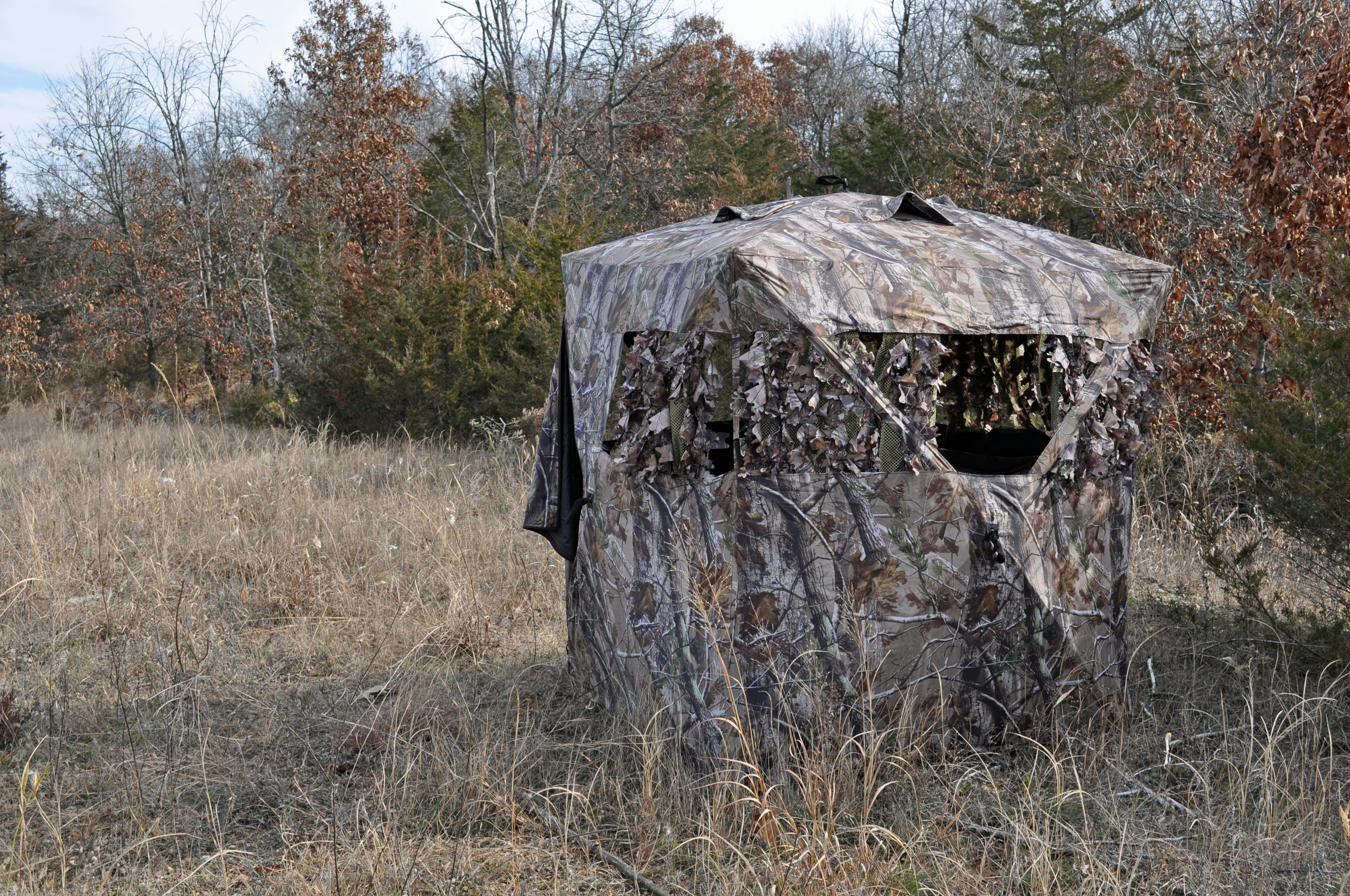 Pop up blind. Photo by Tina Shaw/USFWS.